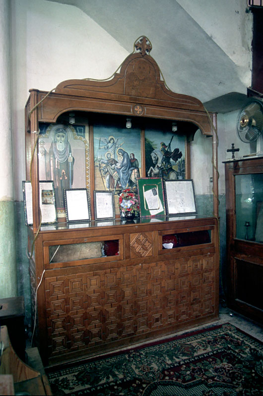 Church of Holy Virgin in Sakha, shrine for relics, Egypt